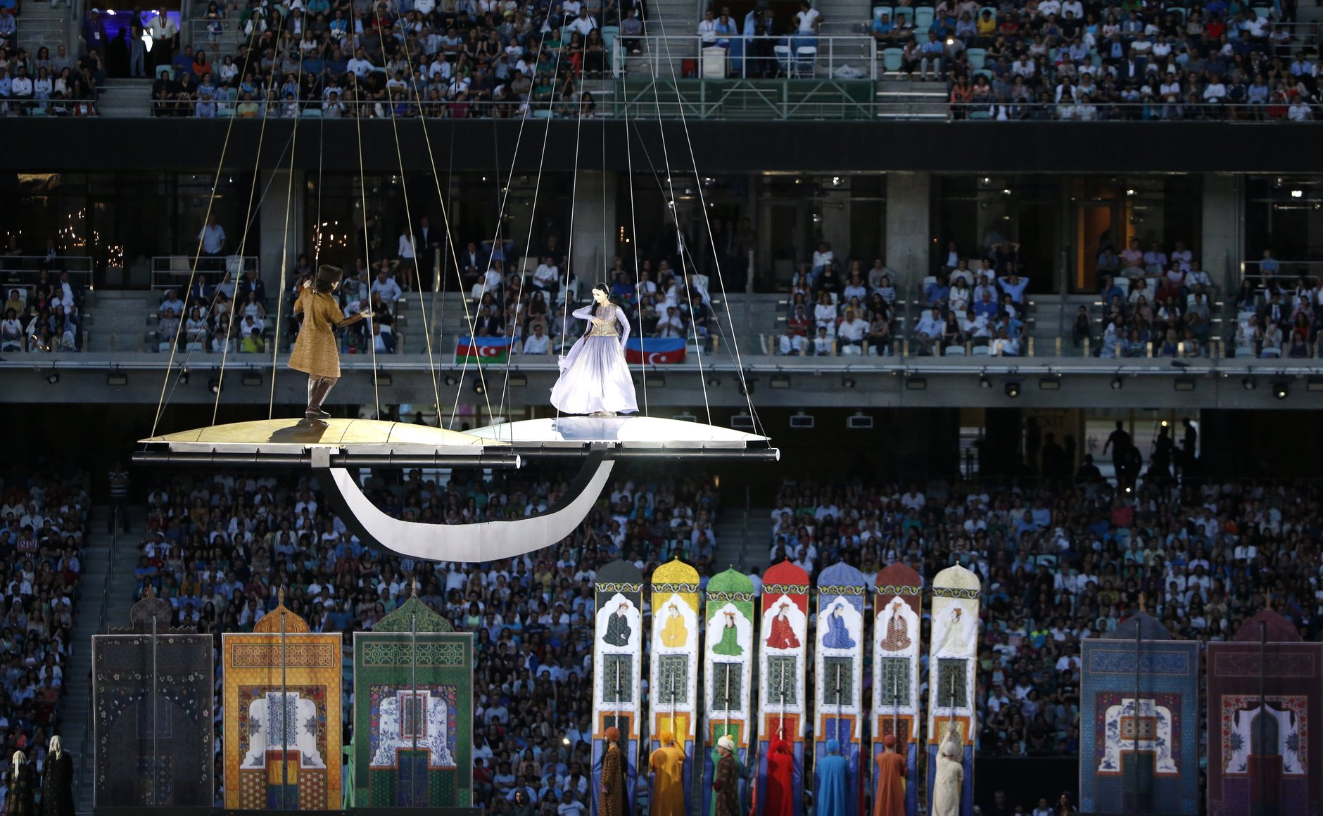 The opening ceremony of the first European games